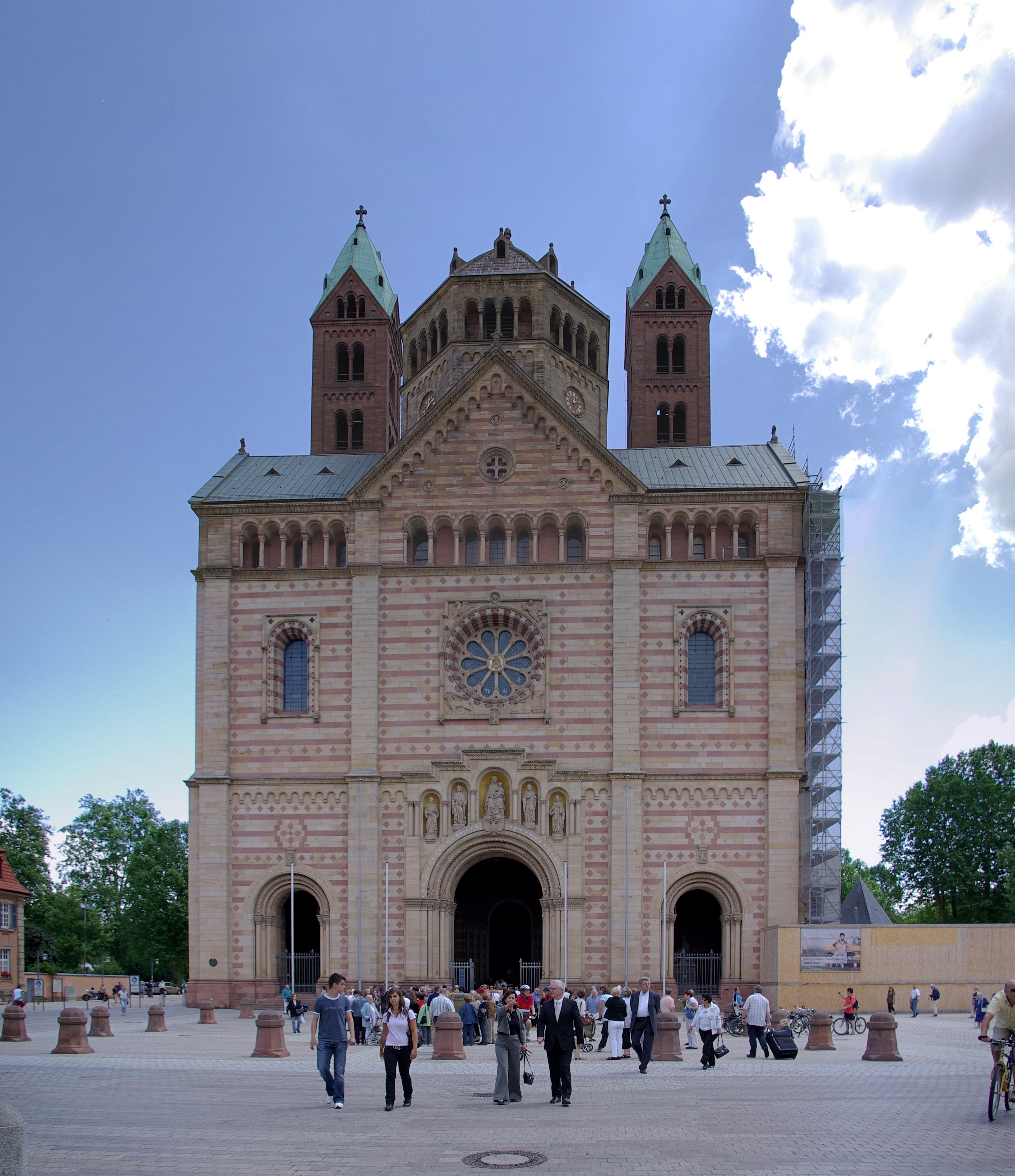 Germany, Speyer cathedral, Facade